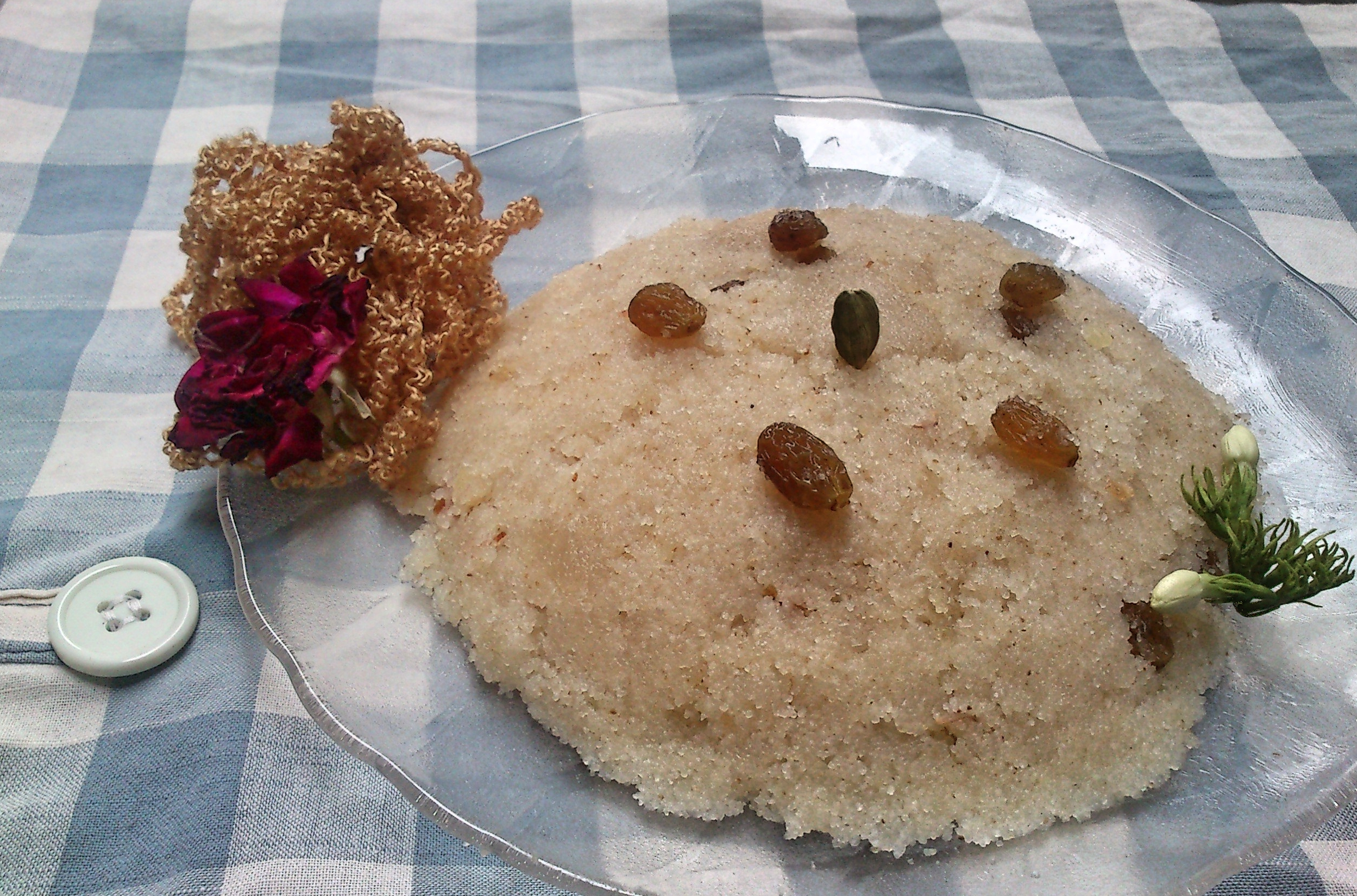 This dish is also known as rava sheera in western India and Rava Kesari in south India. the method of preparation is more or less similar. For flavoring usually cardamom powder is added. saffron threads or kesar can also be added like this saffron suji halwa recipe.